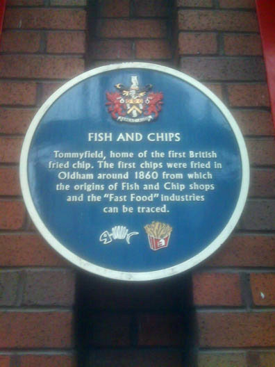 A blue plaque marking the site of the UK's first chip shop, on Oldham's Tommyfield Market. Taken by D. McClure in June 2007. Creative Commons 2.5 Licence.